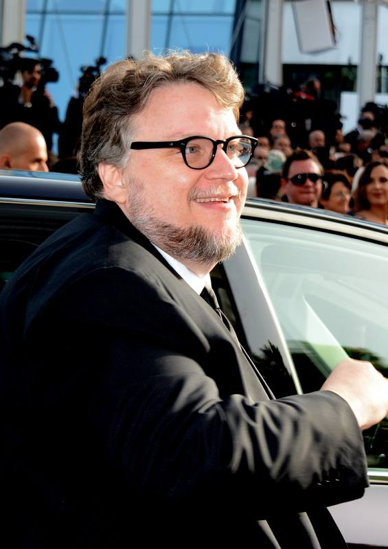 Guillermo del Toro at the Cannes film festival